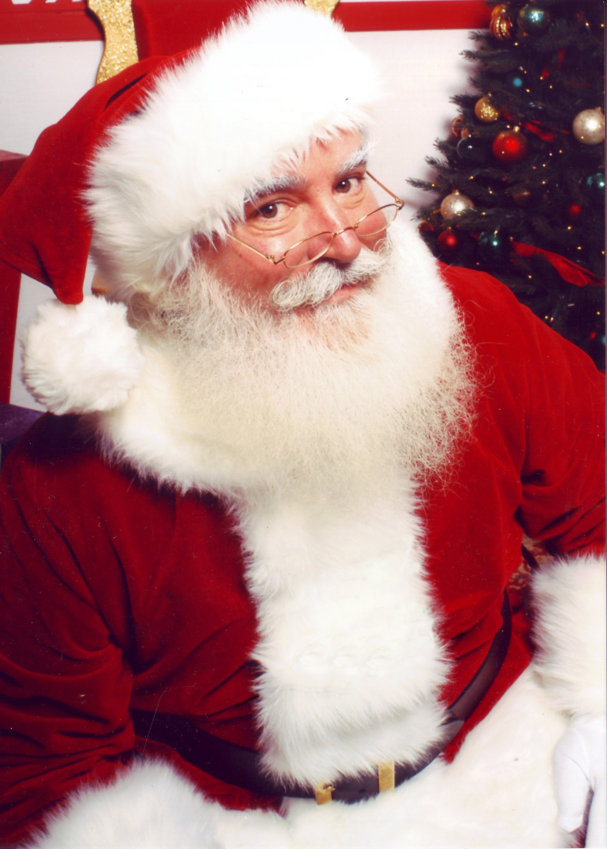 Jonathan Meath as Santa Claus on November 13, 2010